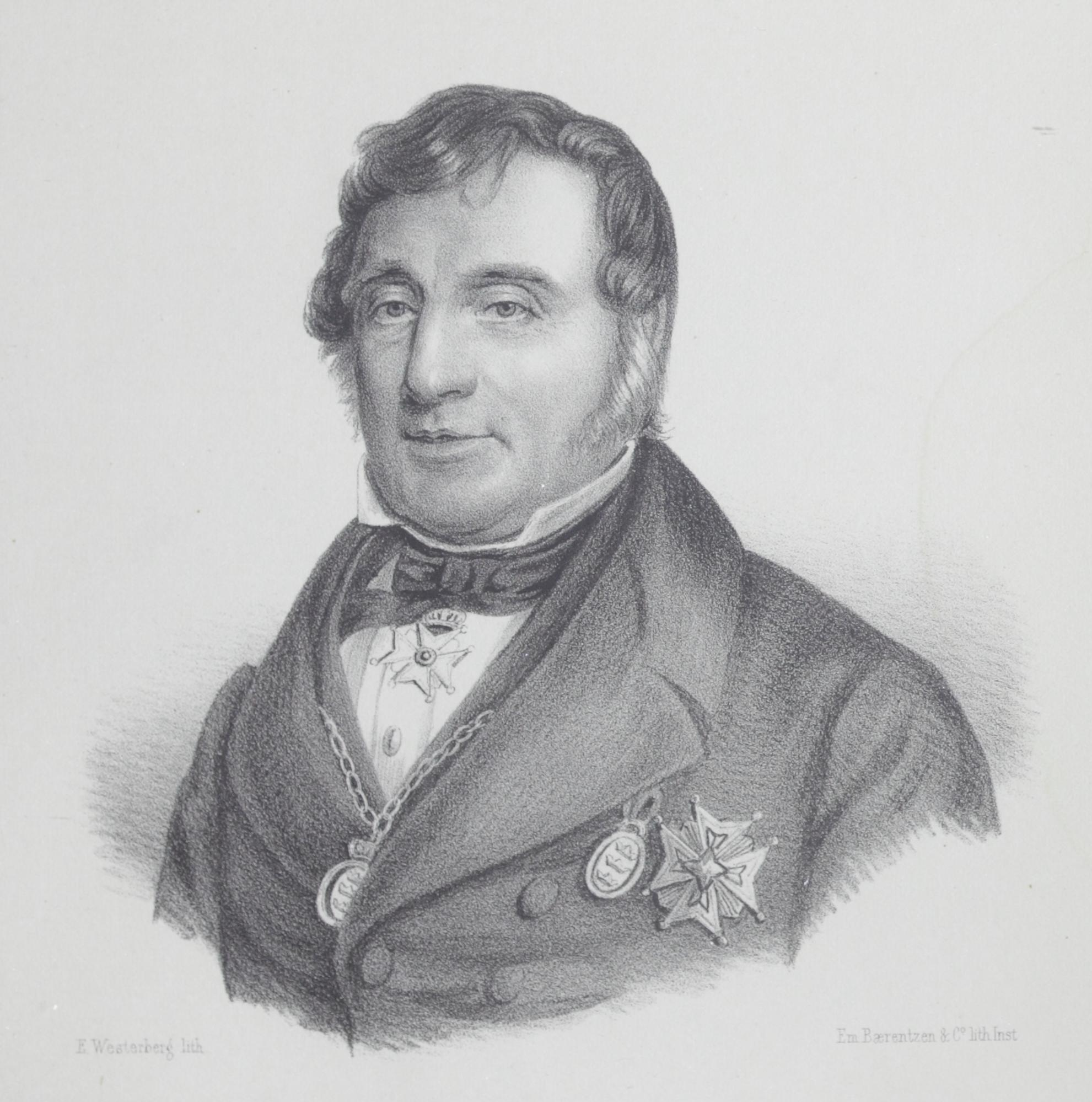 Illustration from the book "Eidsvold-galleri" by Botten-Hansen, Paul and published by Jac. Dybwad (Christiania, 1856-1860). Lithograph by Emil Westerberg, printed at Em. Bærentzen & Co lith. Inst.